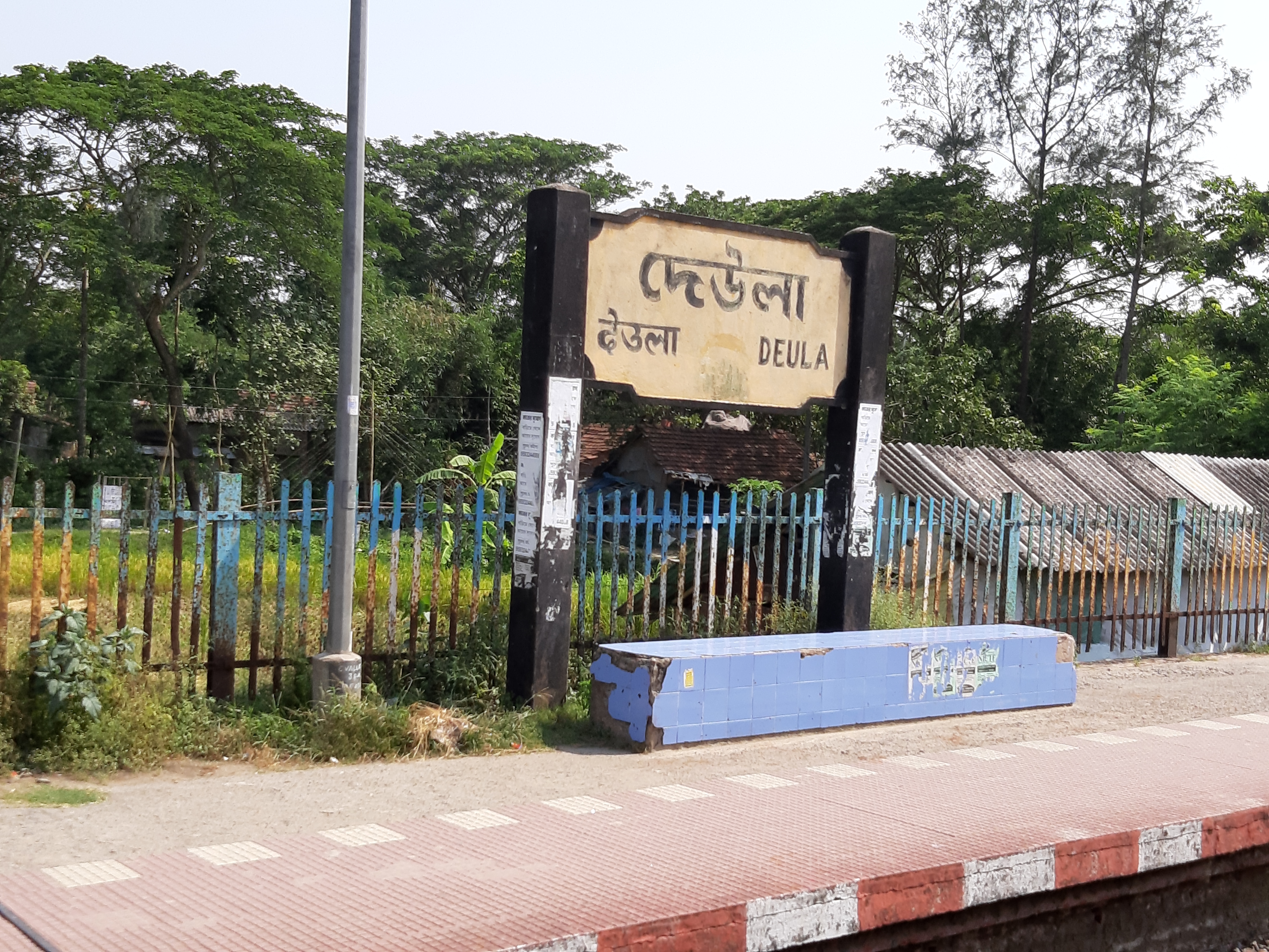 Baruipur to Diamond Harbour Railway